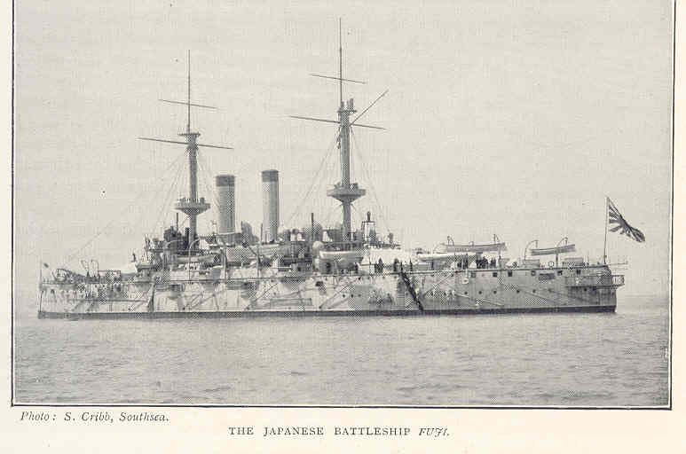 Picture of Japanese battleship Fuji